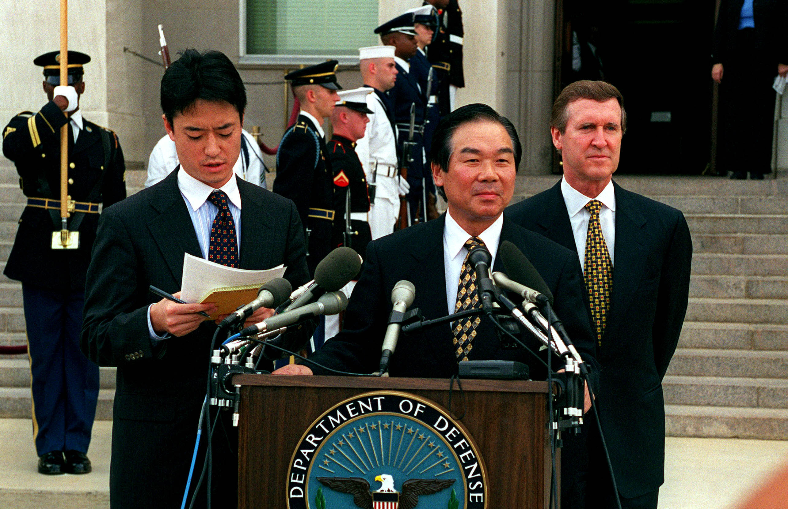 Director General of the Japan Defense Agency Fukushiro Nukaga (center) waits as his interpreter (left) translates his remarks during a welcoming ceremony hosted by Secretary of Defense William S. Cohen (right) at the Pentagon on Sept. 21, 1998.